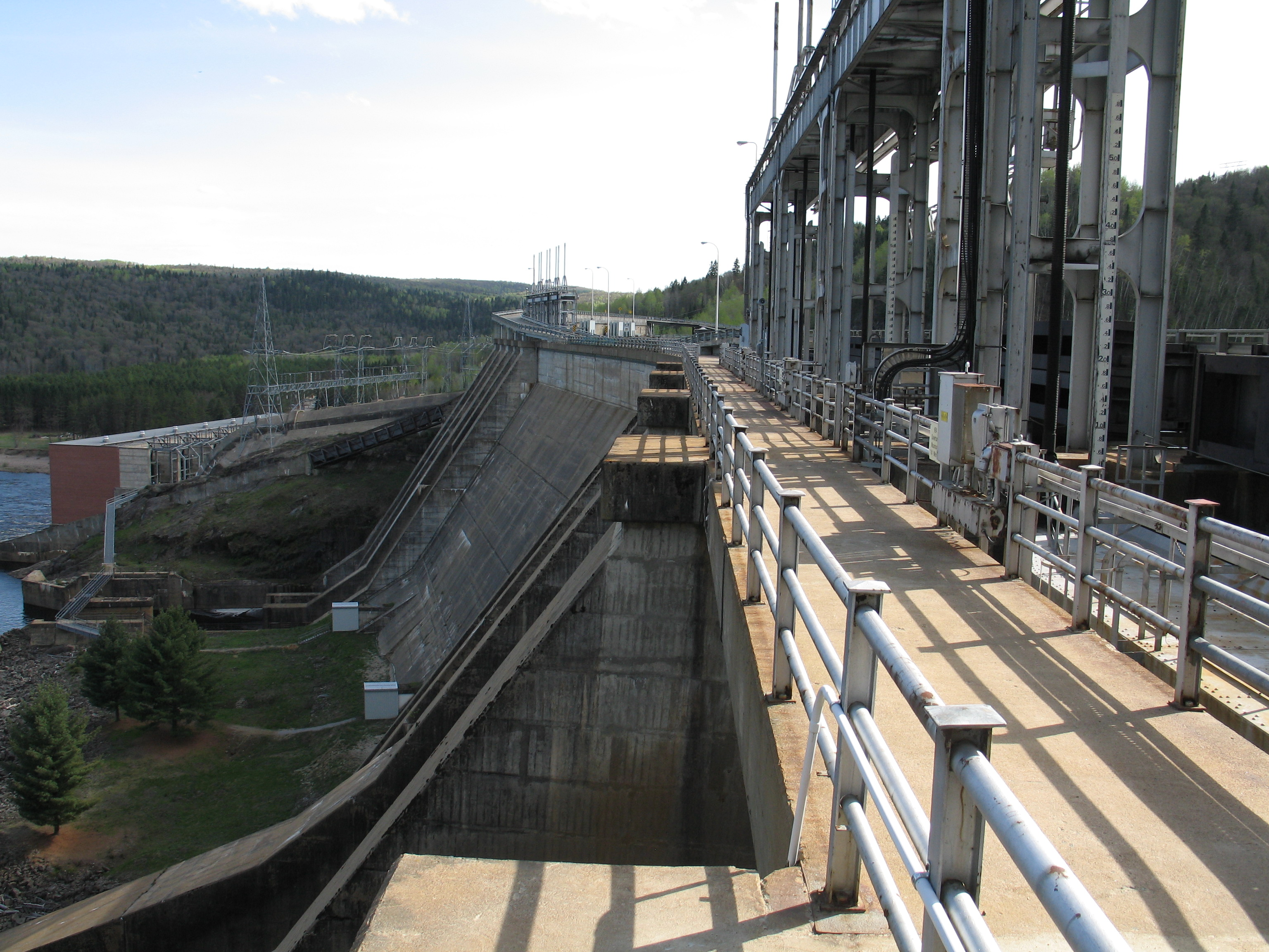 Hydro-Québec's Trenche generating station, north of La Tuque, Quebec. This 302-MW power station has been inaugurated in 1950.